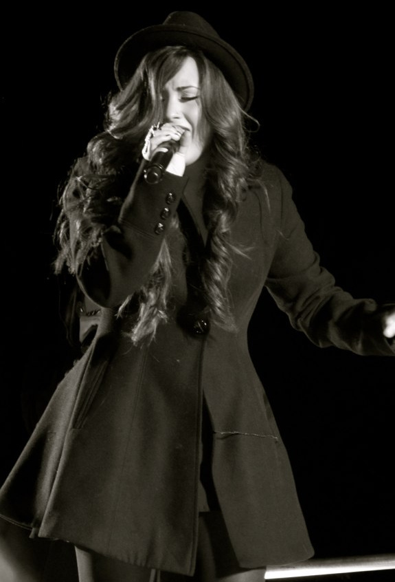 Demi Lovato in December 2011.